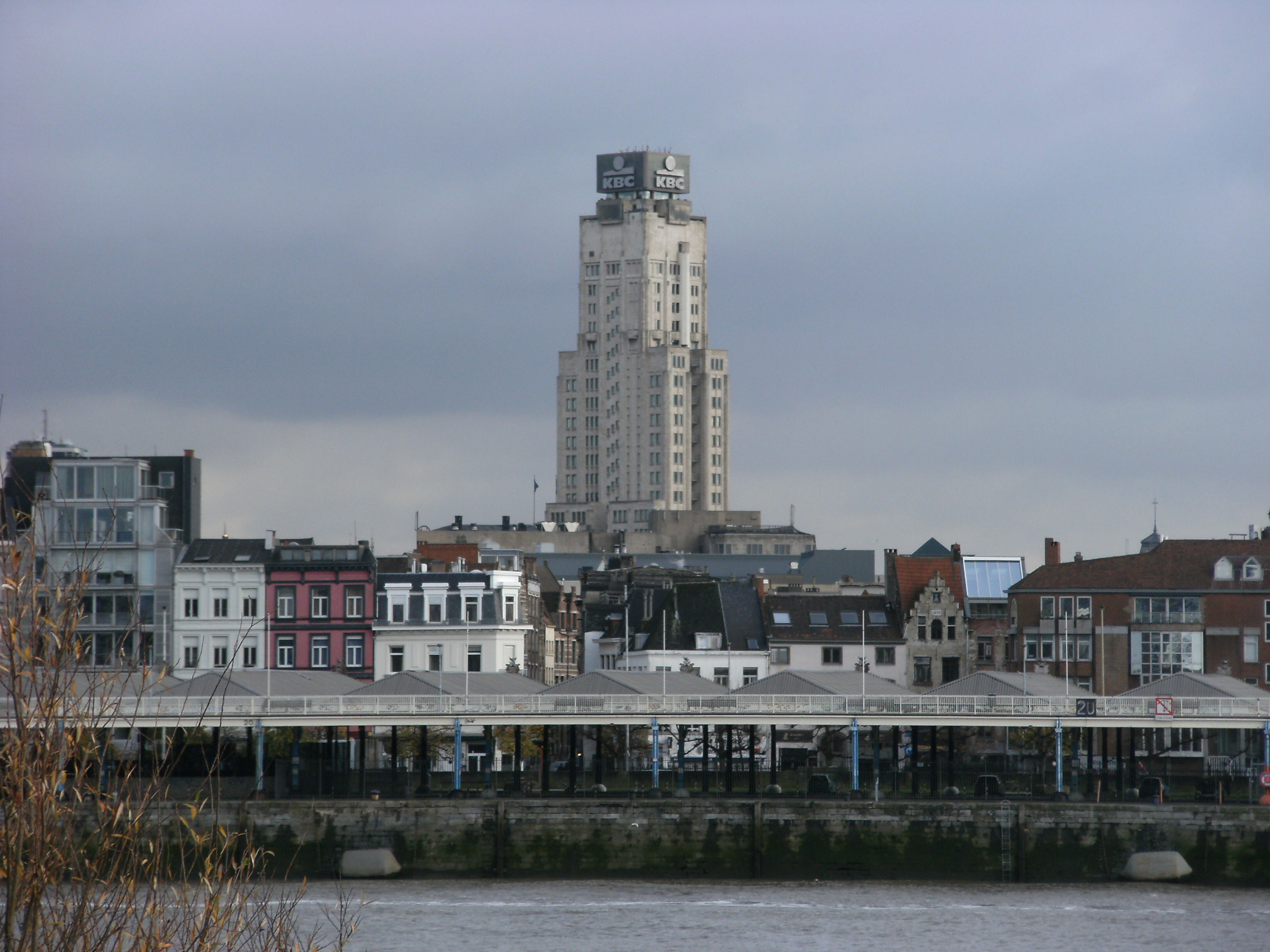 View over Antwerpen from opposite bank.